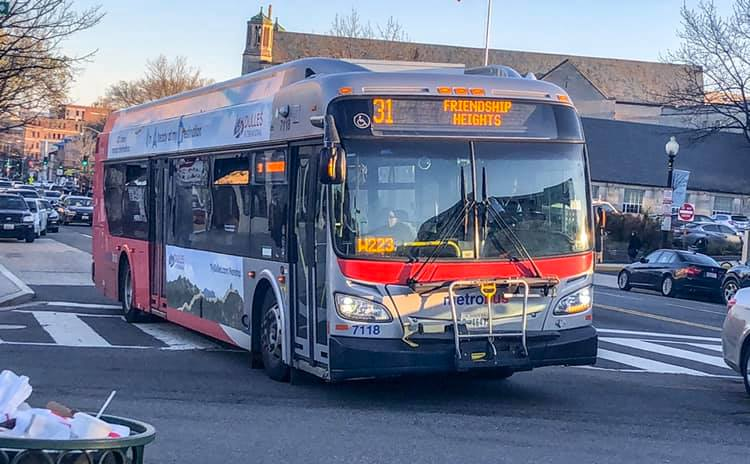 WMATA New Flyer XDE40 7118 on Route 31 along Wisconsin Avenue heading to Friendship Heights